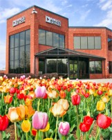 Analog Devices headquarters.